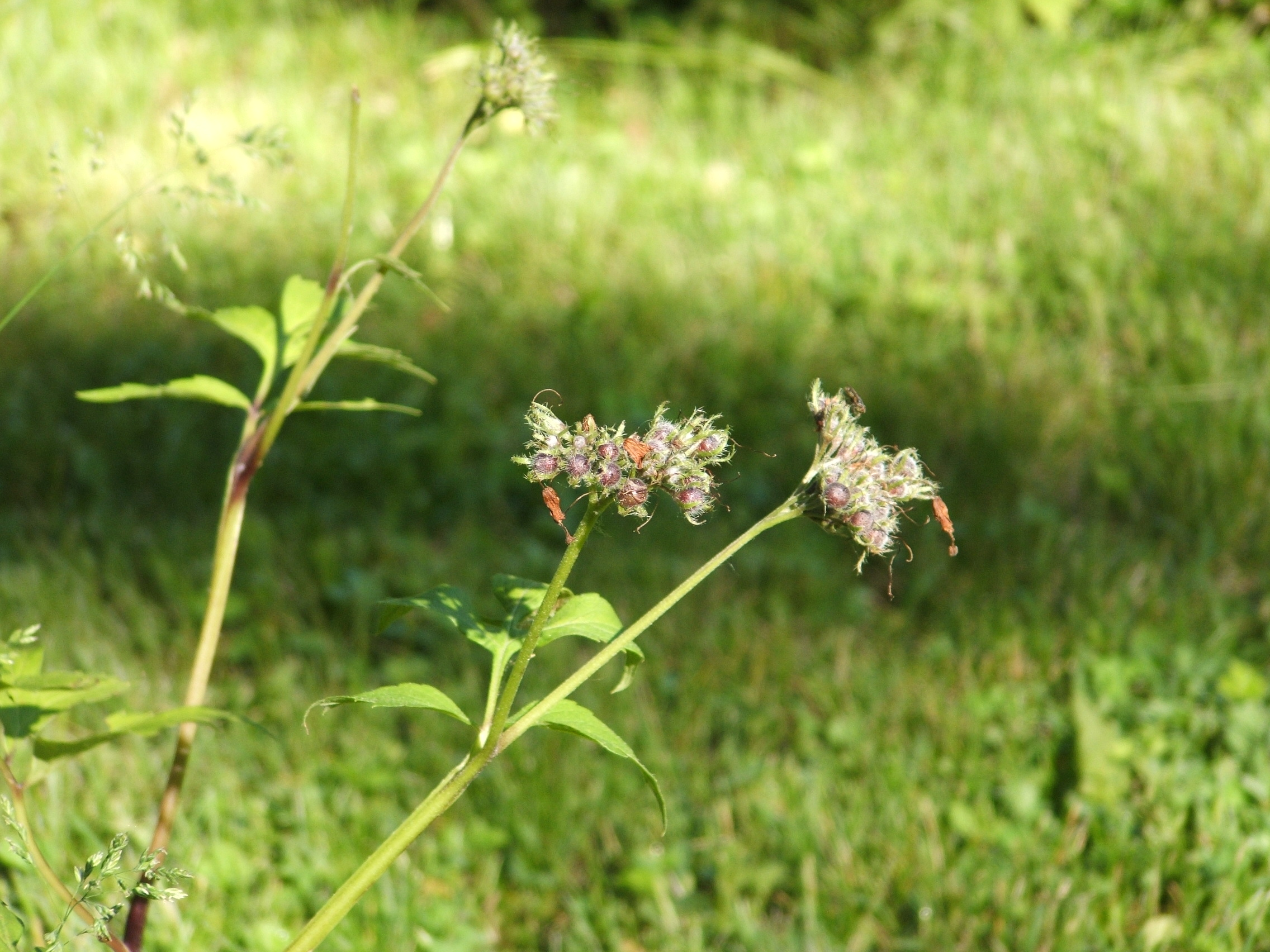 Ripening seed pods of virginia waterleaf (Hydrophyllum virginianum) in early June, Iowa City, Iowa.